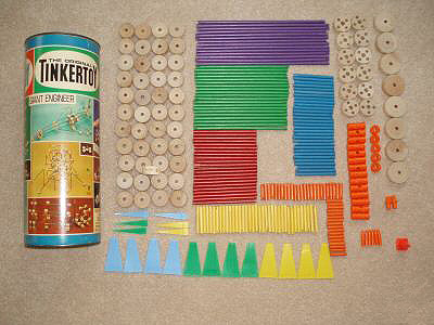 Original Tinkertoy, Giant Engineer #155. Questor Education Products Co., c.1950 [1]